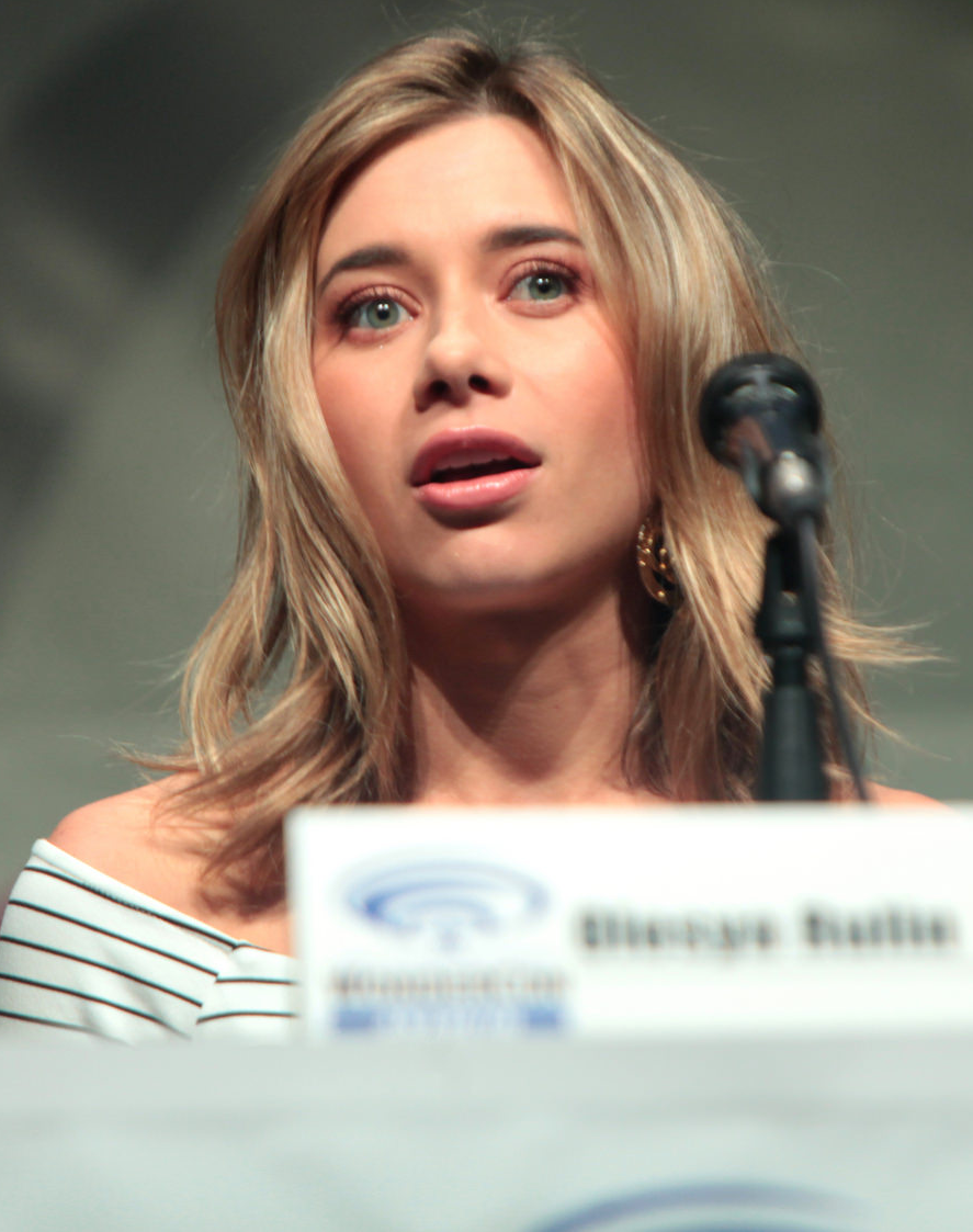 Olesya Rulin at the WonderCon 2015 panel for "Powers"